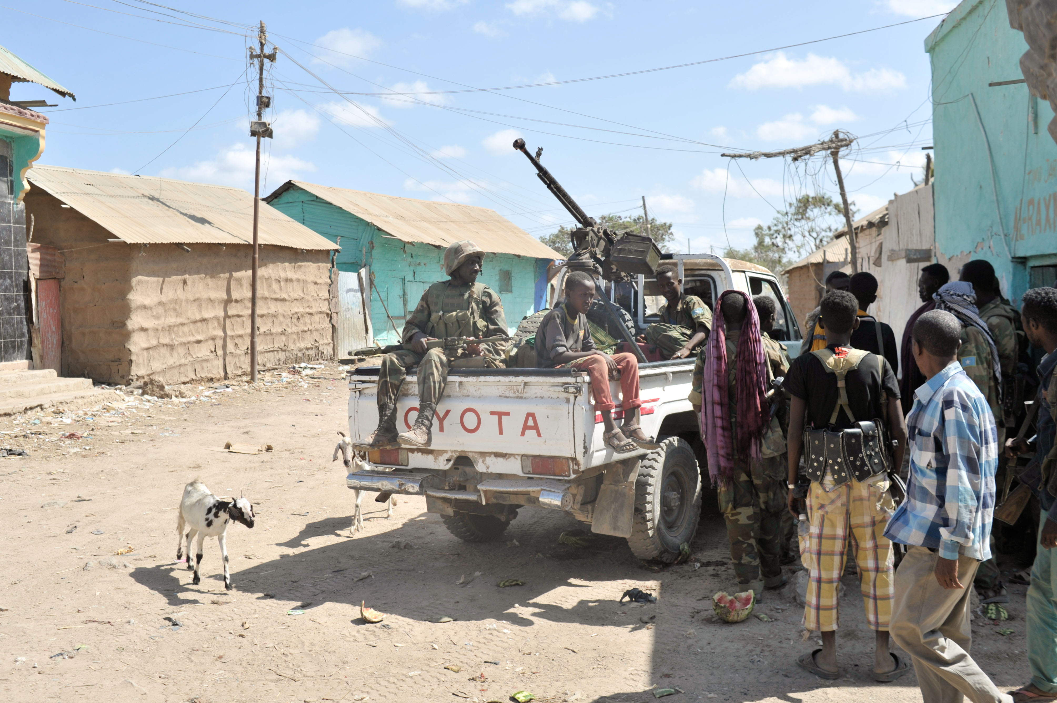 Somali National Army troops sit atop a Technical in the town of Qoryooley, Somalia, after a succesful joint operation by the African Union and the SNA to capture the town from al Shabab militants on March 22. AU UN IST PHOTO / Tobin Jones